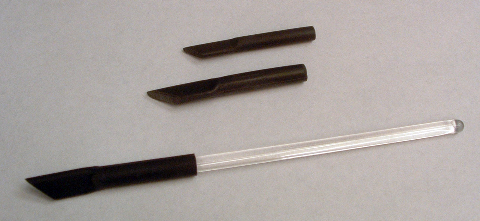 Examples of rubber policemen. These are made from natural rubber and are designed to be attached to an appropriately sized glass rod.